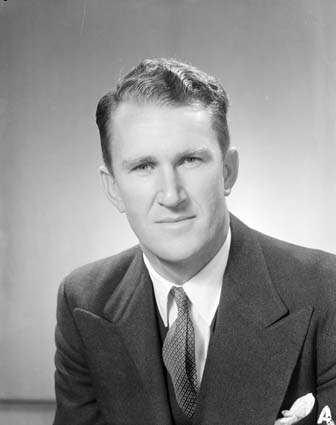 A 1962 black and white portrait of Malcolm Fraser, MHR for Wannon